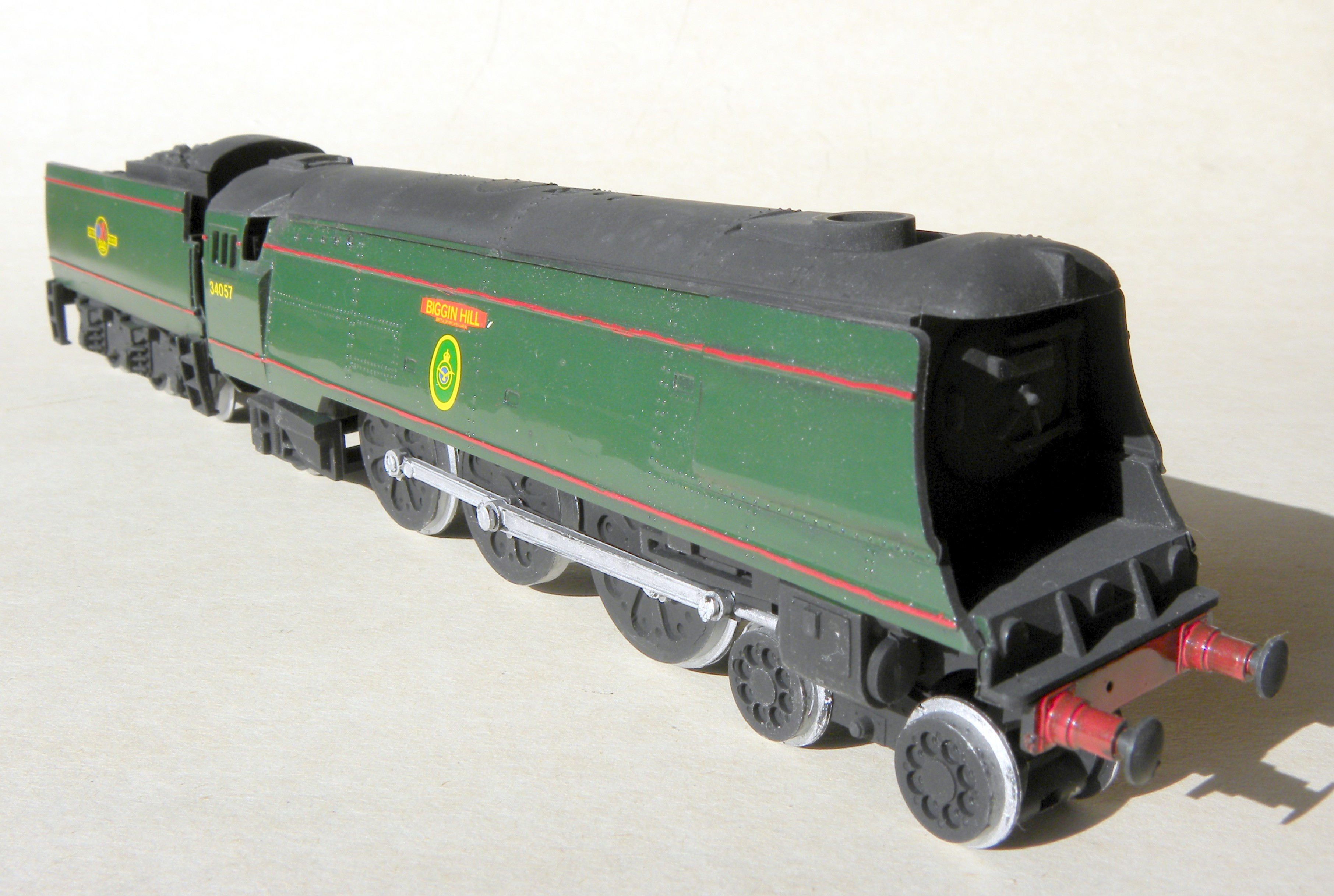 Airfix Battle of Britain class Biggin Hill first made by Rosebud Kitmaster than by airfix from 1968 to 1979 later the moulds for this kit went to Dapol the original Rosebut kit was in black plastic airfix had them in green, this is an early Dapol kit which also came in black, later they used grey.